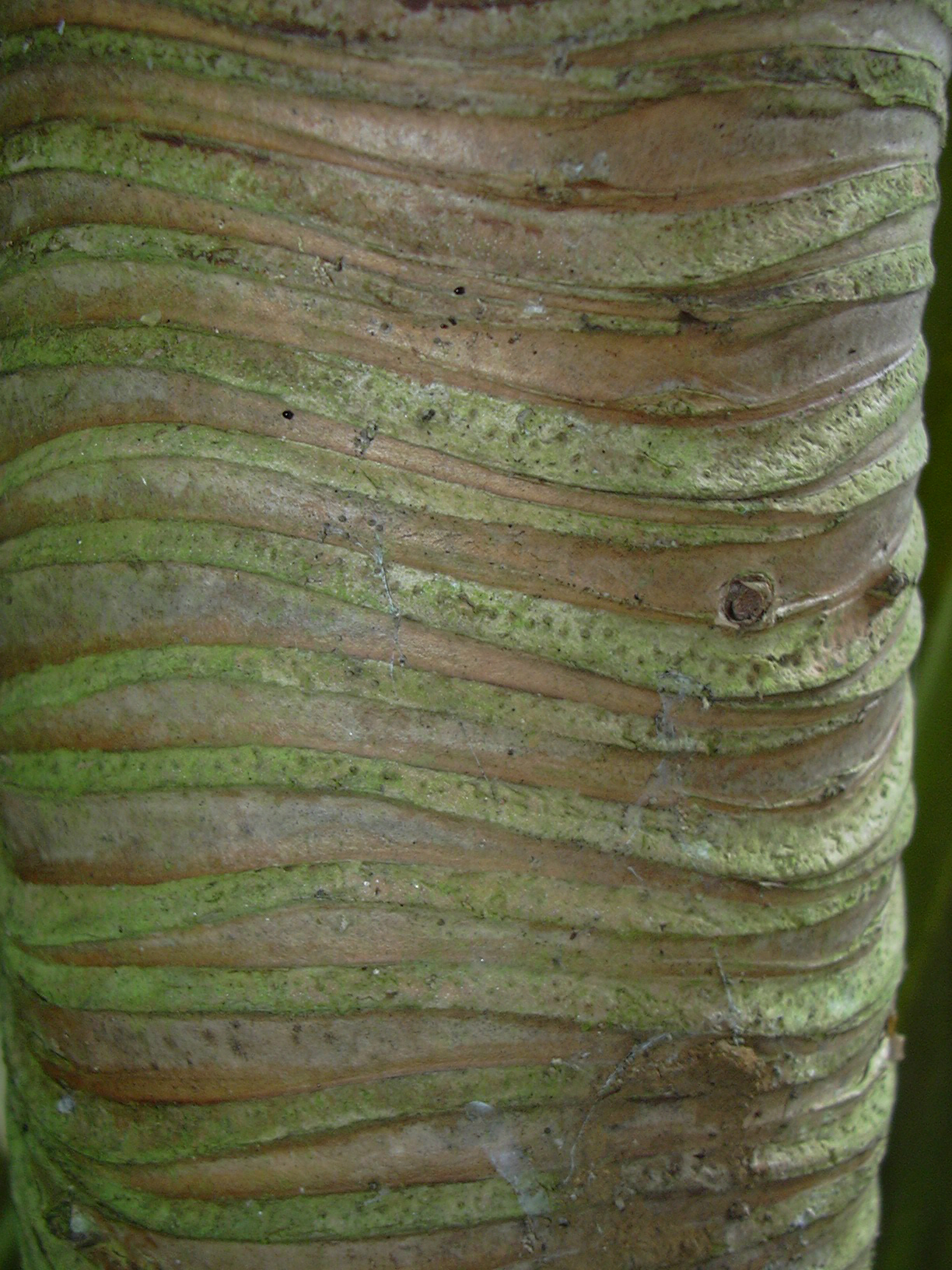 Pandanus tectorius (bark). Location: Maui, Hana Hwy